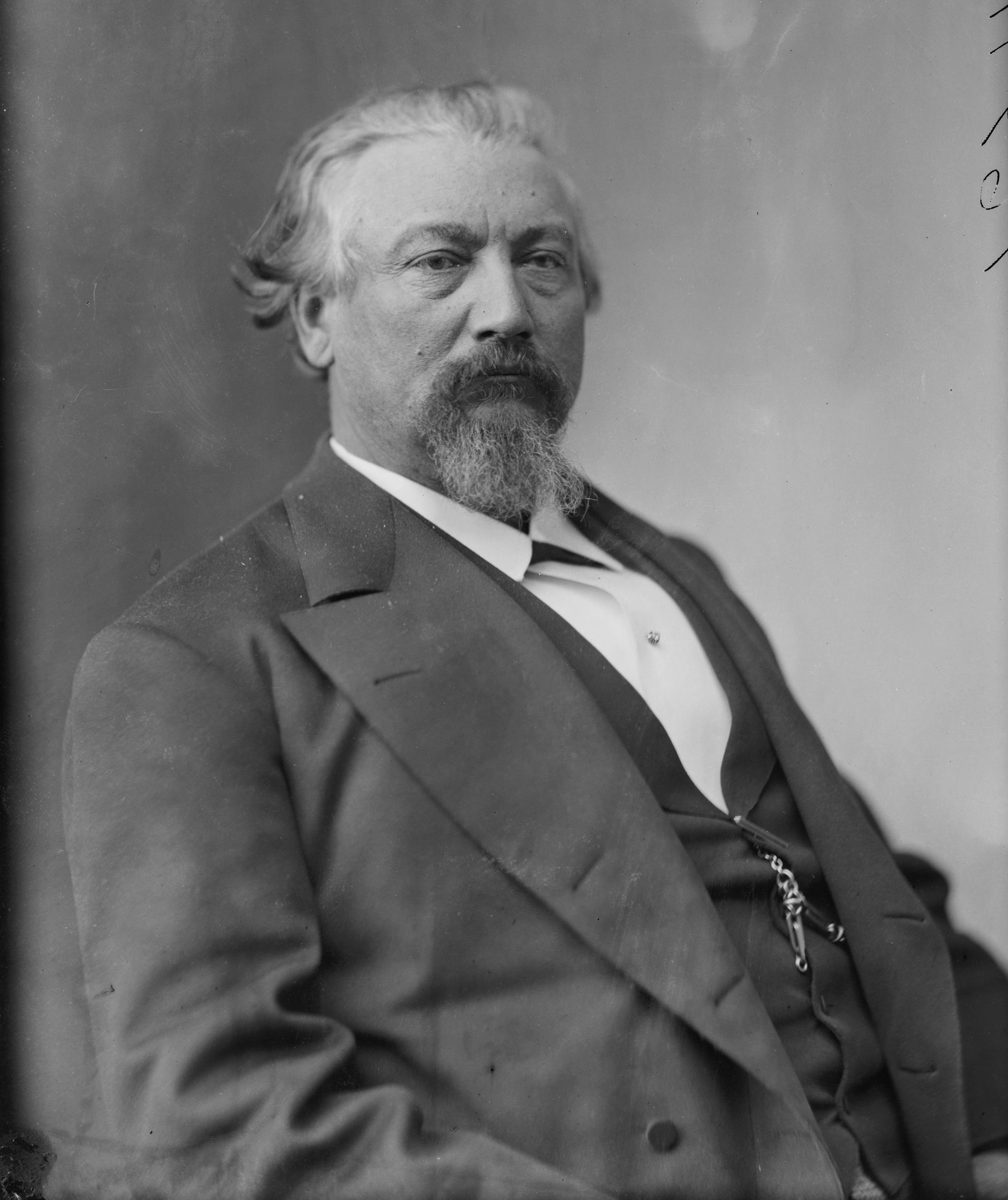 William Alexander Smith. Library of Congress description: "Smith, Hon. Wm. Alexander of N.C.".